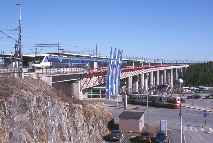 Södertälje Syd is a railway station in the city of Södertälje in Sweden.